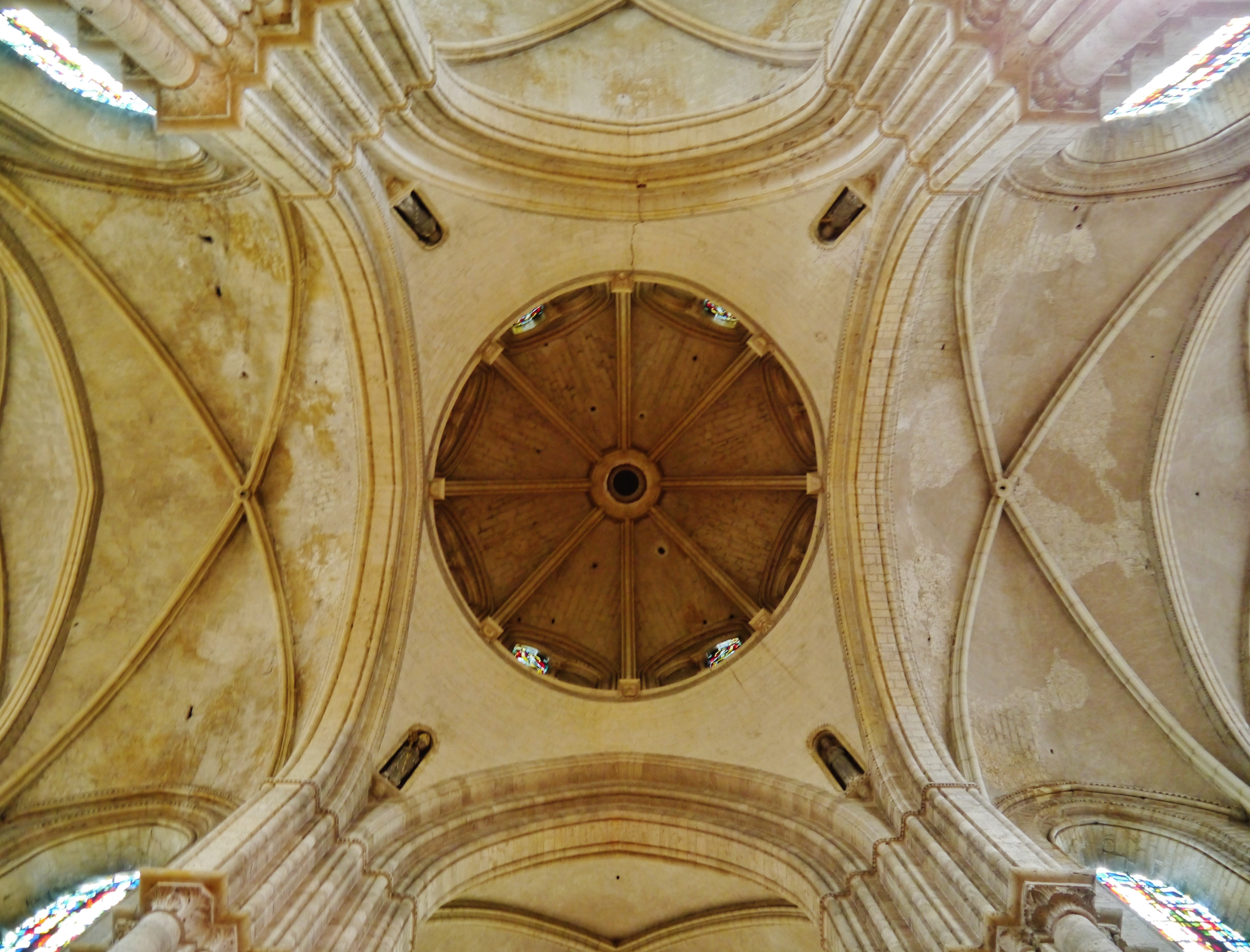 Crossing of the Church of St. Nicholas-St. Lomer, Blois, Department of Loir-et-Cher, Region of Centre-Loire Valley, France